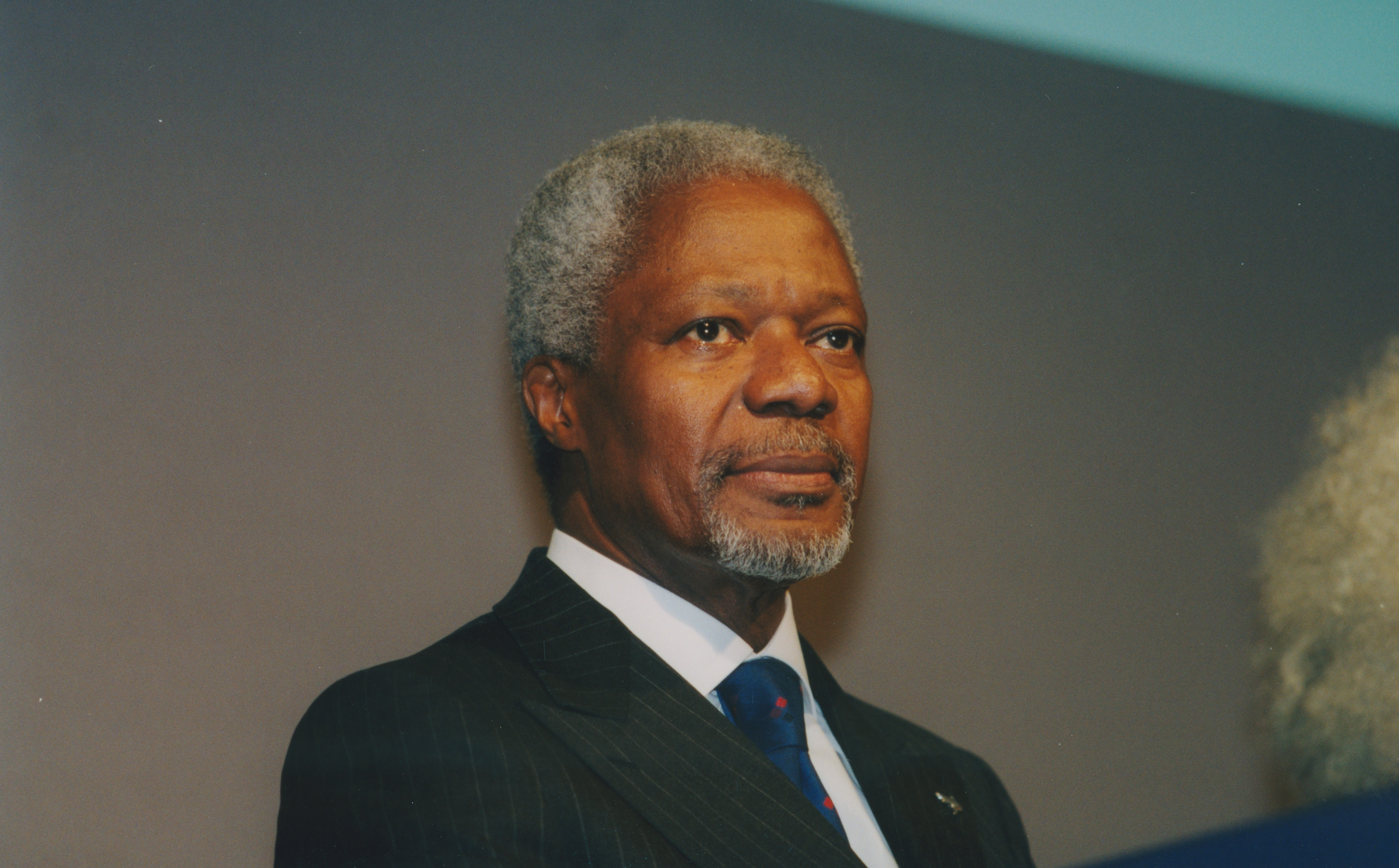 Giving a lecture 'From Doha to Johannesburg by way of Monterrey: How development can be achieved and sustained in the 21st century,' Peacock Theatre, LSE, 25th February 2002 IMAGELIBRARY/827 Persistent URL